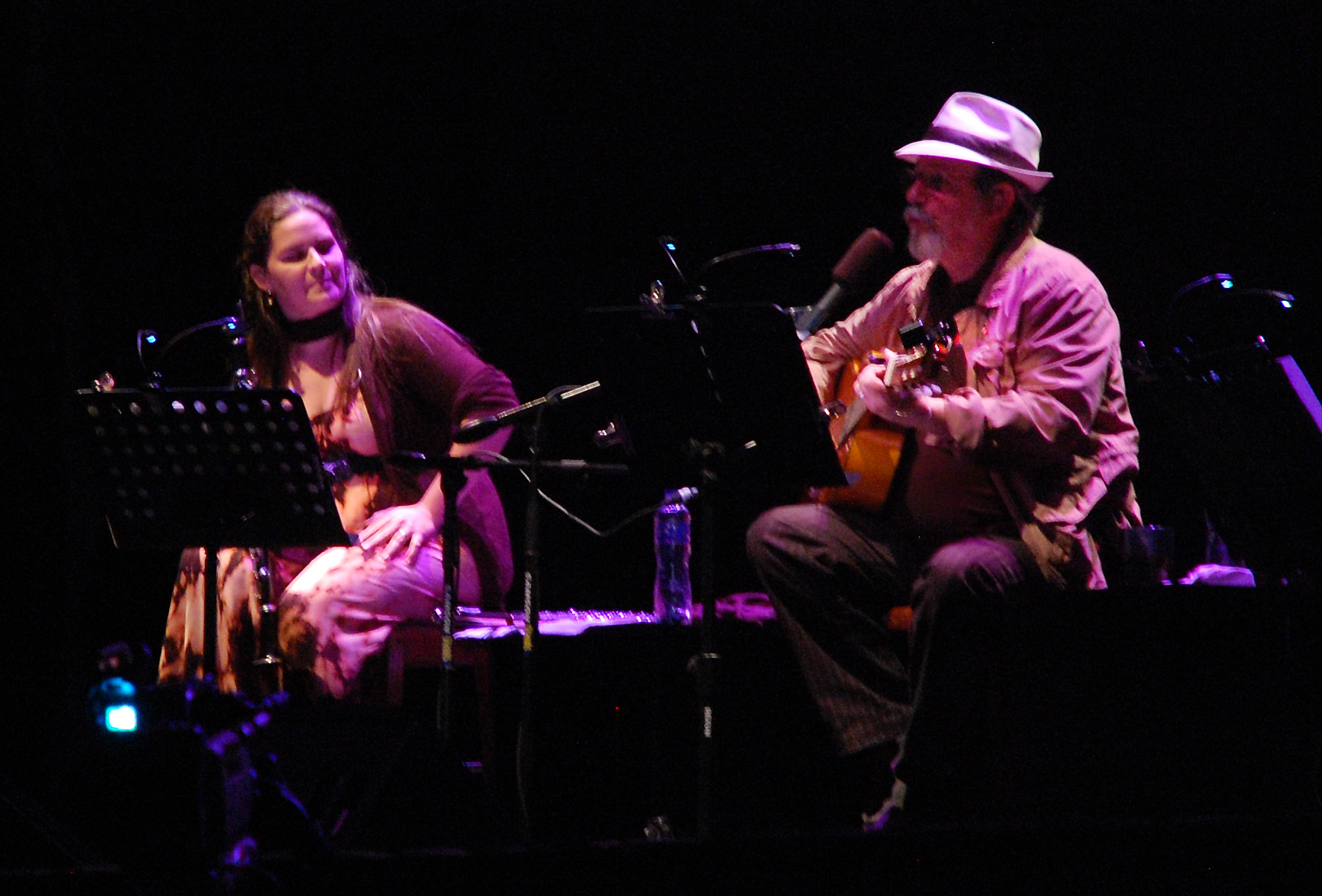 Silvio Rodriguez and Niurka González in concert, Lima 2013